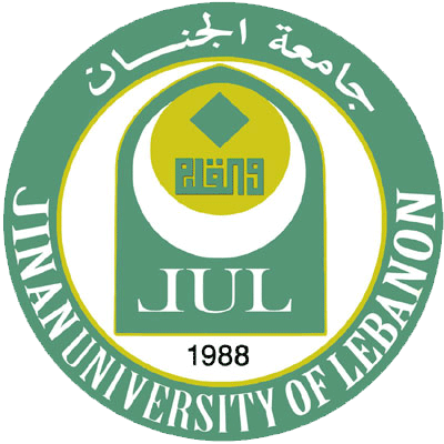 Jinan University of Lebanon Logo